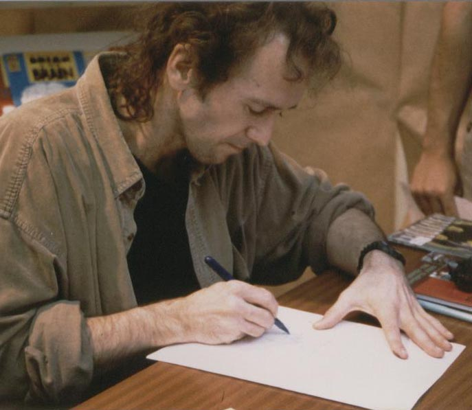 José Emilio Amo has taken the picture in Gijón (Spain. 1997) and he gives permission for the image to be licenced to Wikipedia and its many mirrors and reusers and soforth Copyright (c) 1997 José Emilio Amo Mori.